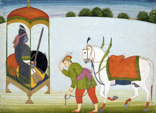 Kalki Avatar Punjab Hills, Guler, c. 1765